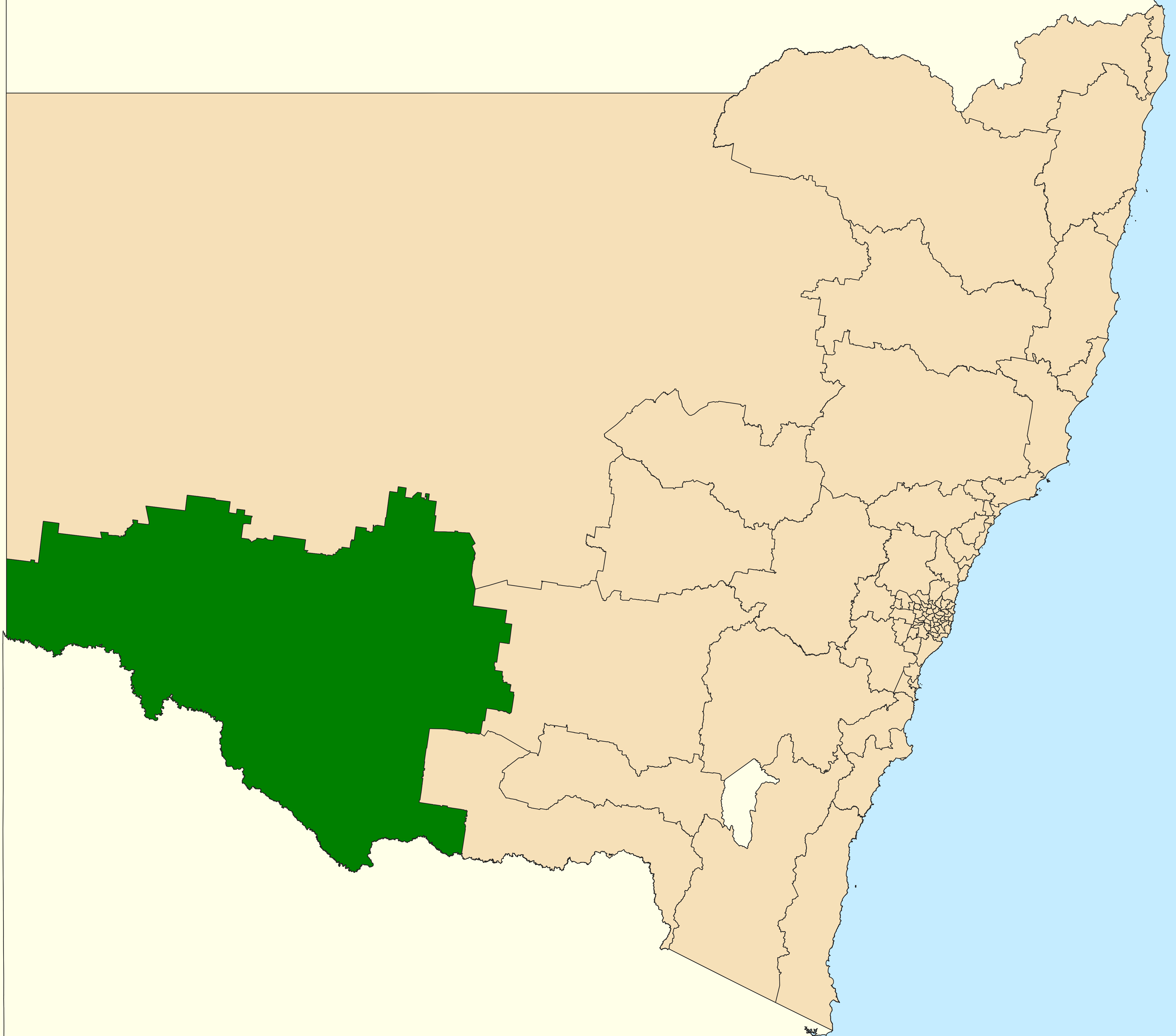 Location of the state electoral district of Murray (dark green) in New South Wales as of the 2019 New South Wales state election. Incorporates or developed using Administrative Boundaries ©PSMA Australia Limited licensed by the Commonwealth of Australia under Creative Commons Attribution 4.0 International licence (CC BY 4.0).